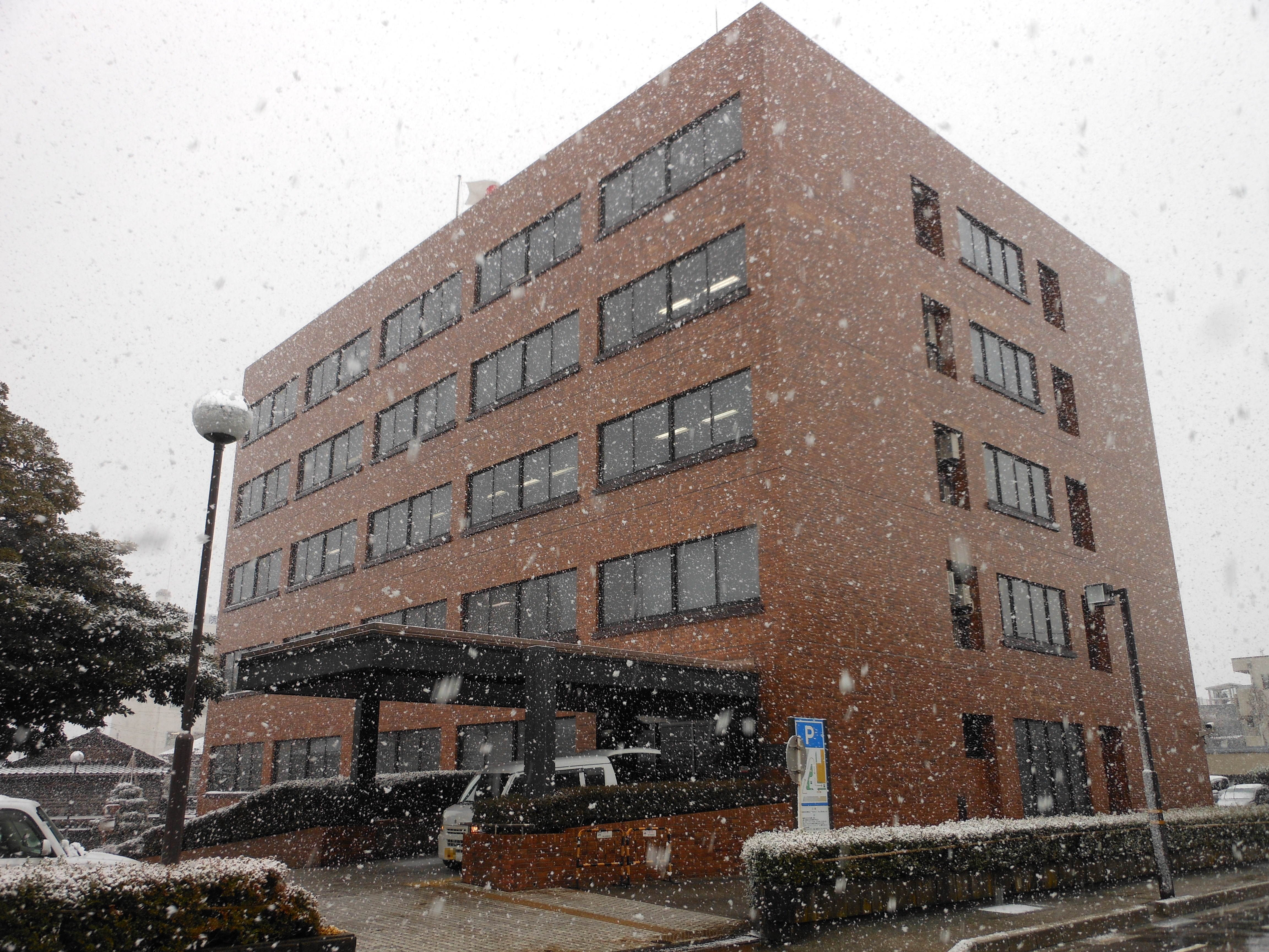 This is Kanazawa Law Joint Building in Kanazawa, Ishikawa, Japan.